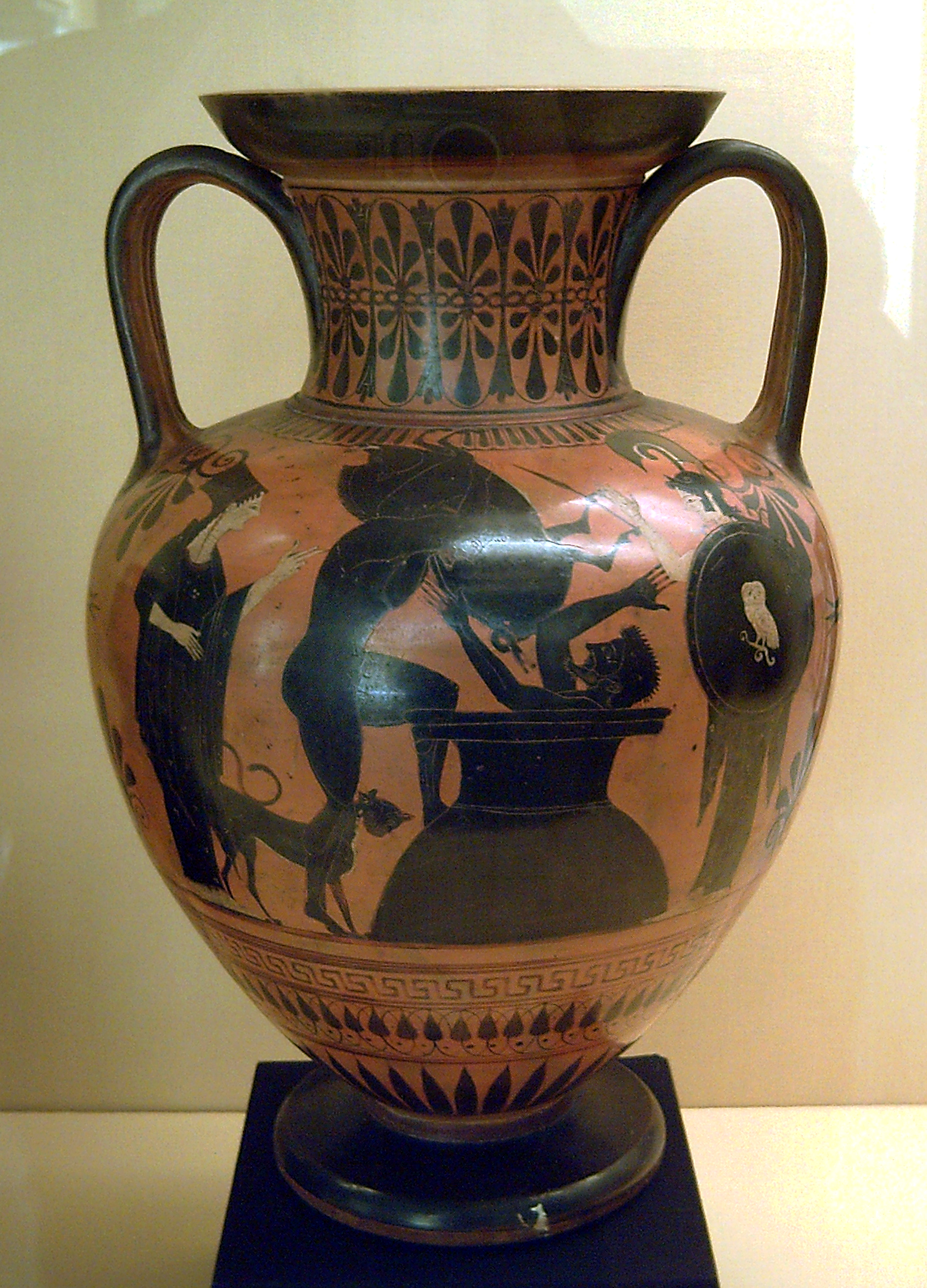 An Ancient Greek amphora showing Heracles throwing the Erymanthian Boar on Eurystheus, who, frightened, hides in a jar. Goddesses Artemis (left) and Athena (right) contemplate the scene.